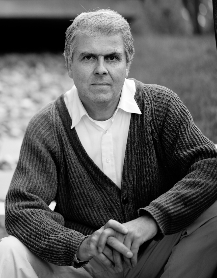 Andreas Theurer (sculptor) summer 2007 in Kleinmachnow.